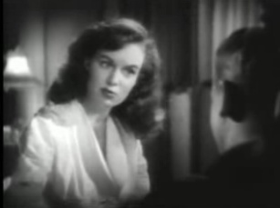 Screenshot of Helena Carter from the trailer for the film Kiss Tomorrow Goodbye (1950)